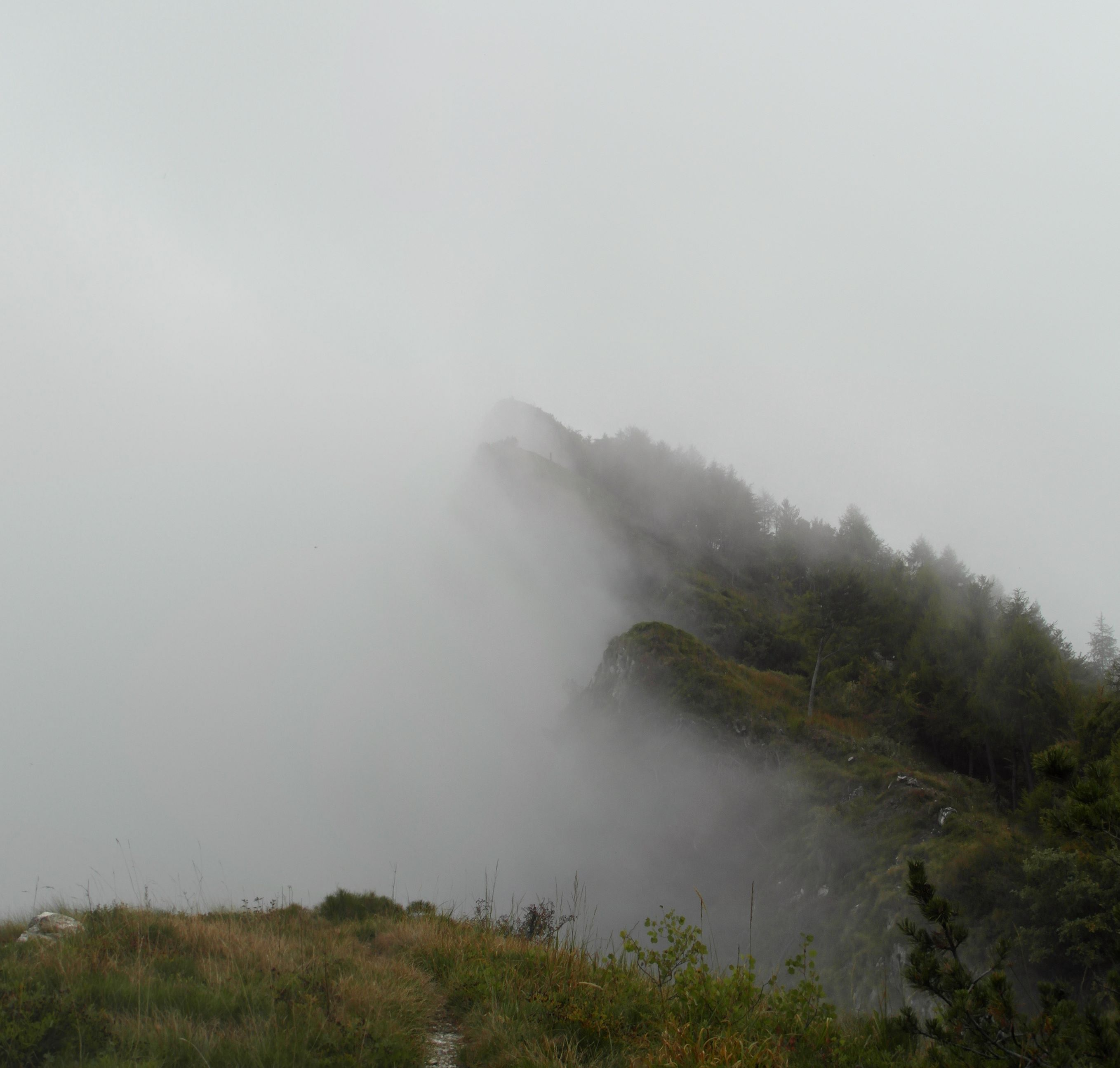 Fog up to the Marzola, Trento (Italy)